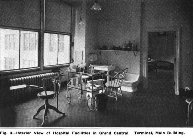 Hospital in Grand Central Terminal in 1915.